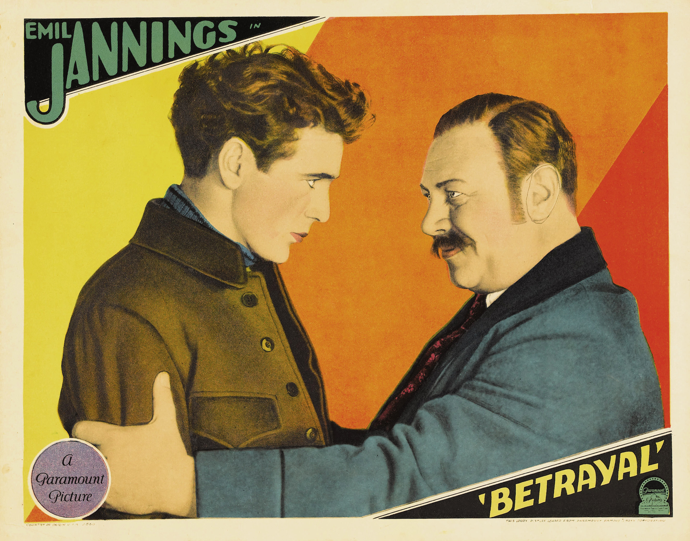 Lobby card for the American drama film Betrayal (1929). There are no copyright marks on the item. At bottom left is Country of origin USA 2330. At bottom right is This lobby display leased from Paramount Famous Lasky Corporation.